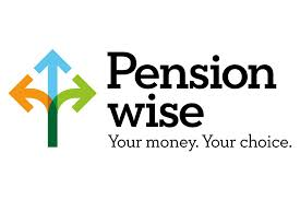 Pension Wise Logo